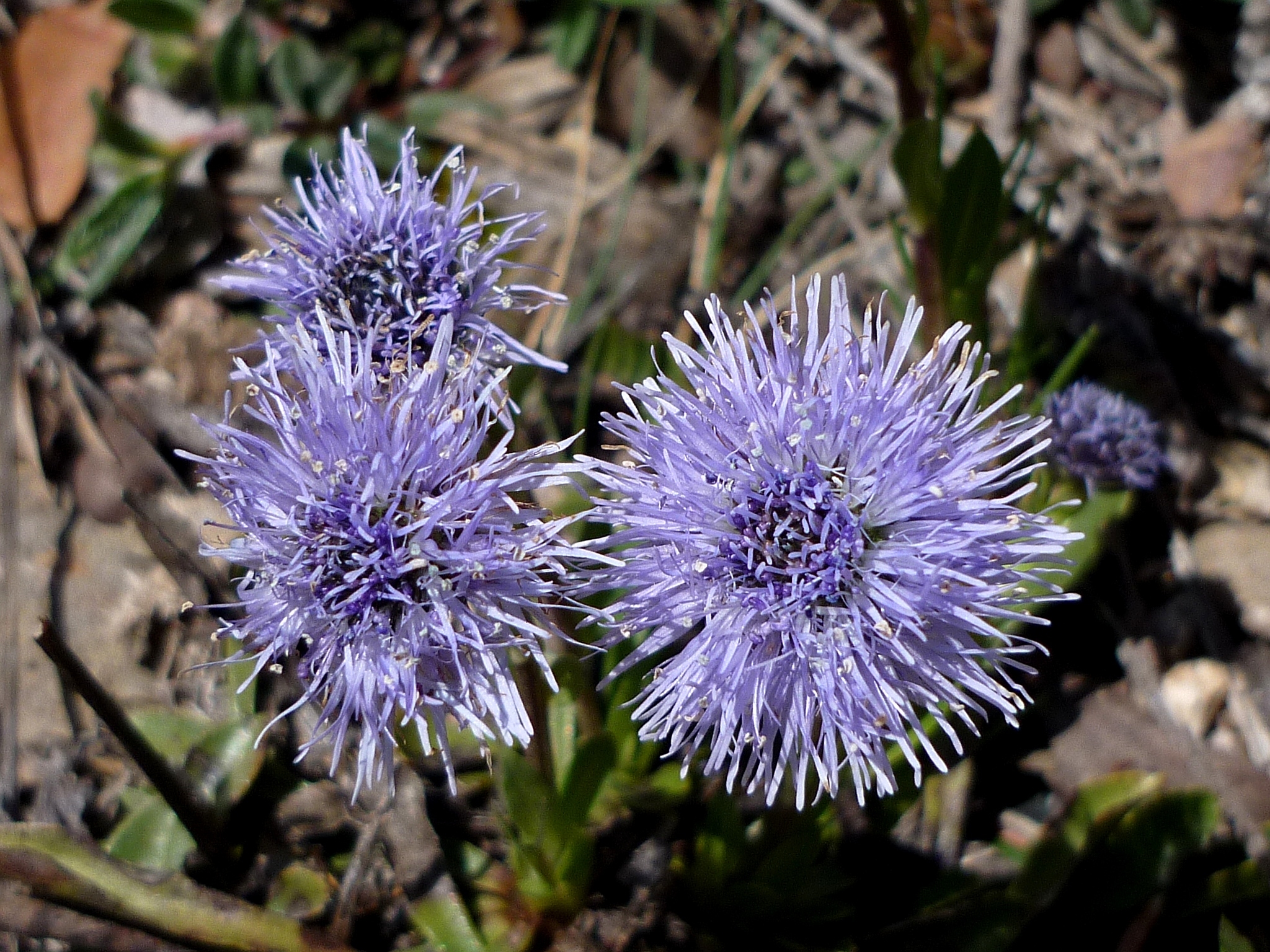 Globularia vulgaris. In Castellar del Riu (Berguedà-Catalunya). To 1.220 m. altitude